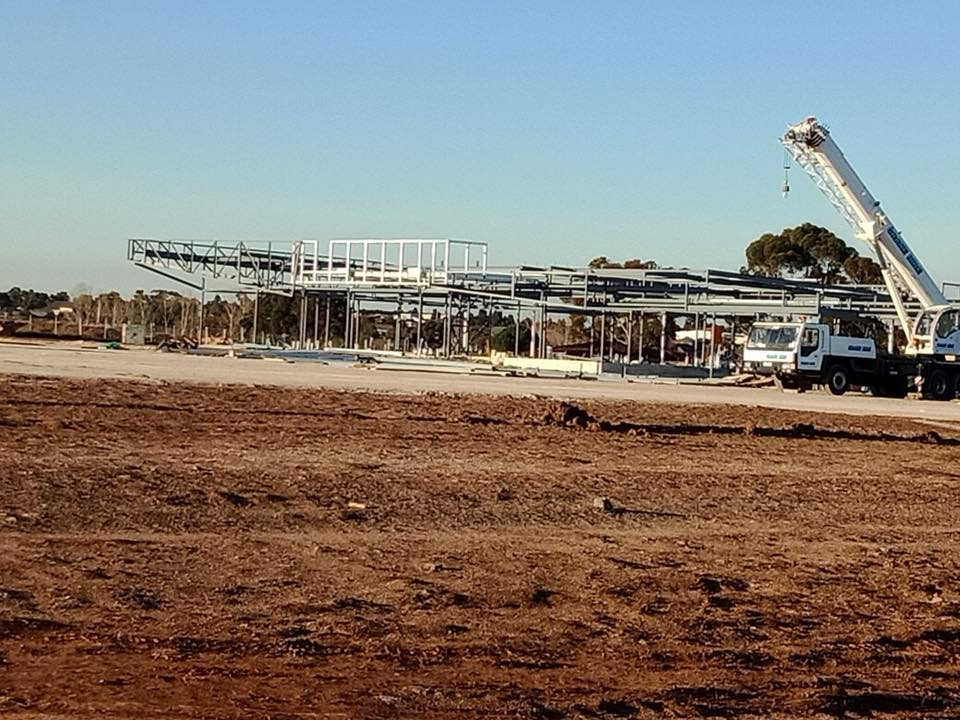 A construction photo of the Fraser Rise Sporting Complex main pavilion